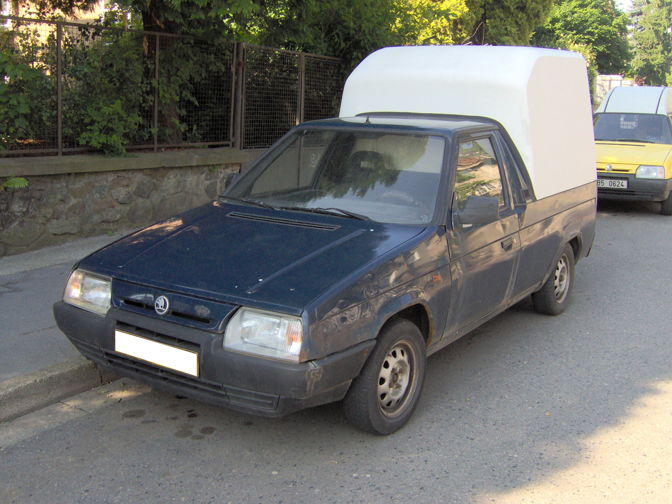 Škoda Pick-up, Brno, Czech Republic